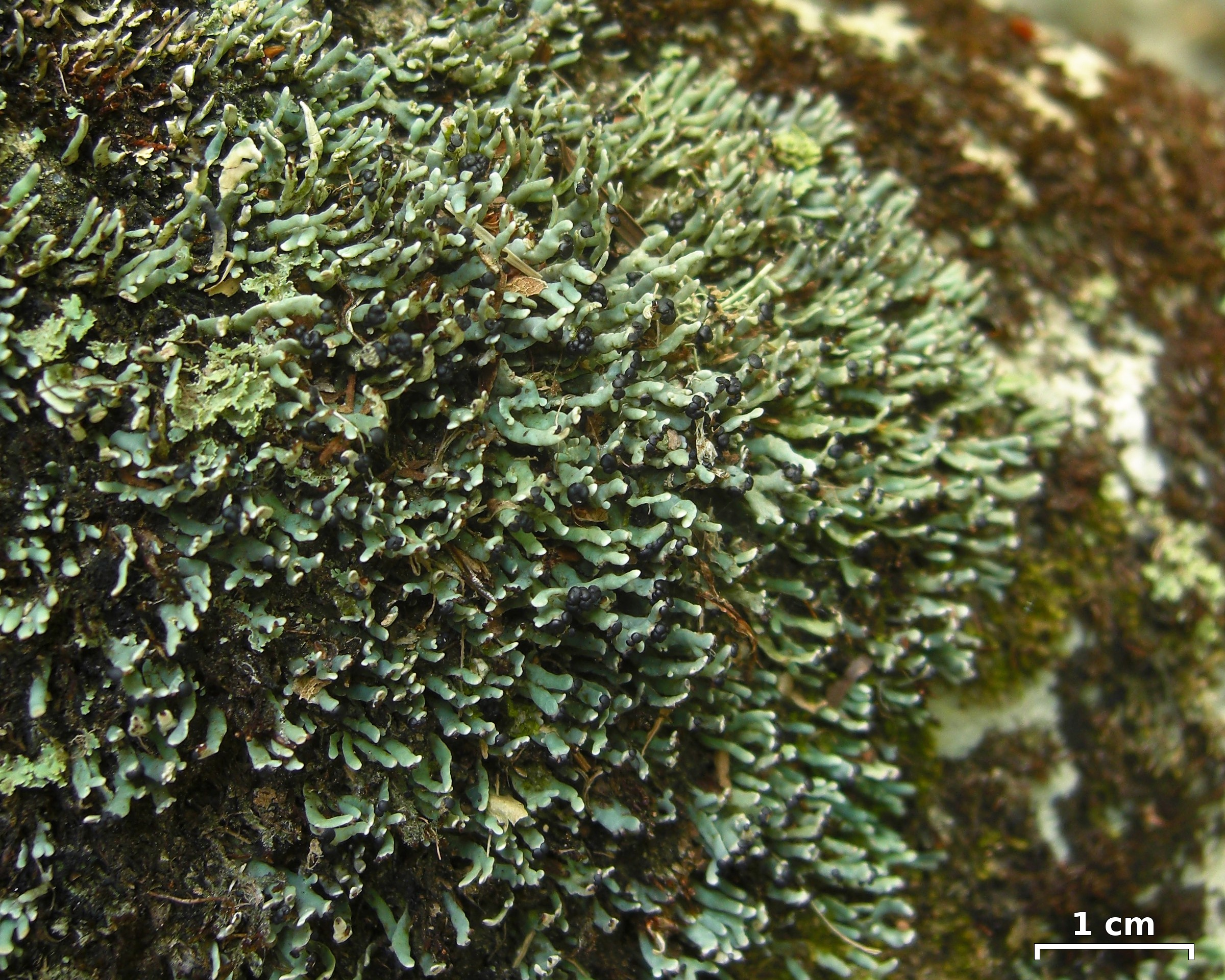 heart of the Smokies, Tennessee, 20110601